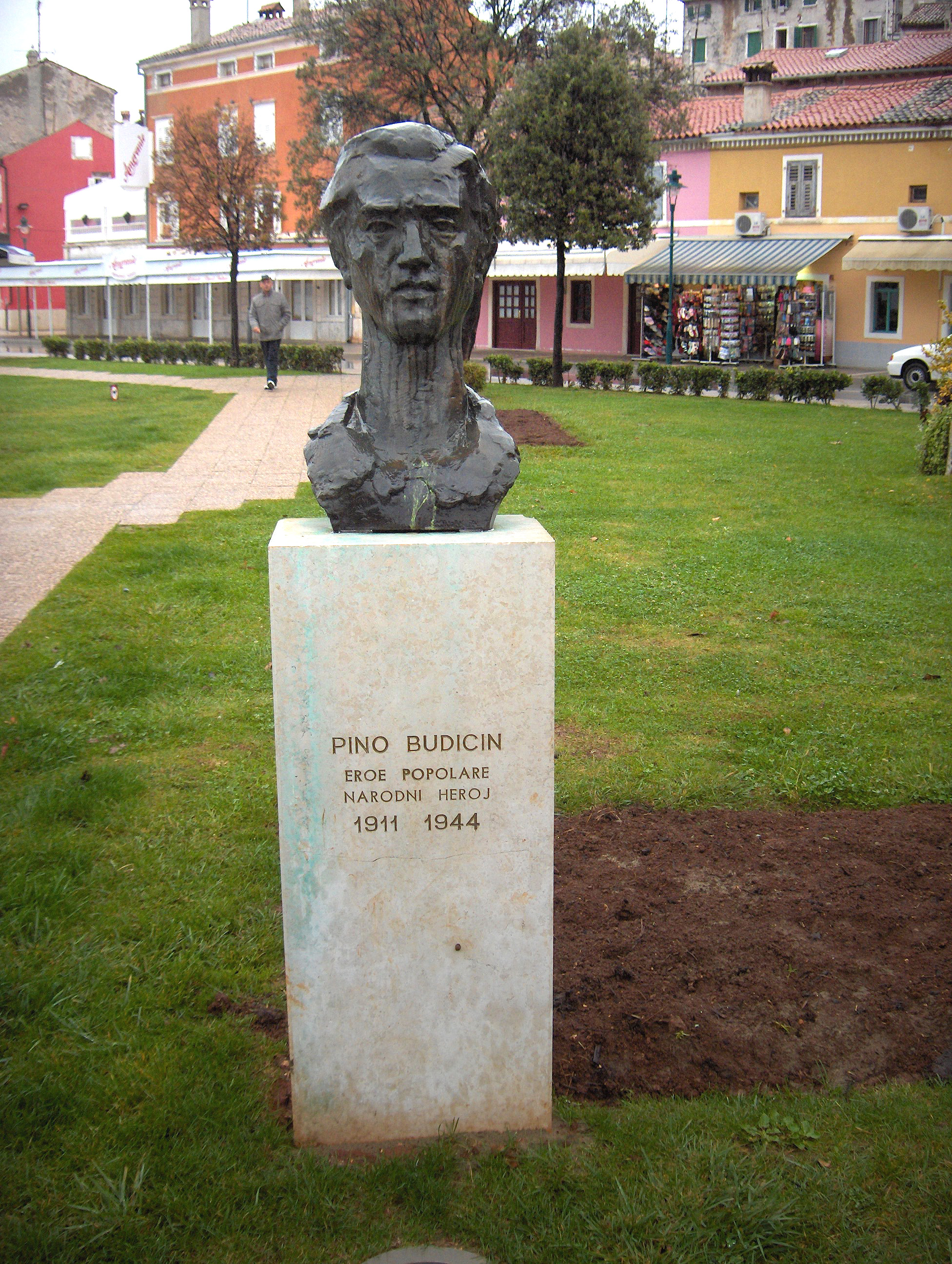 Bust of Pino Budicin; Rovinj, Croatia